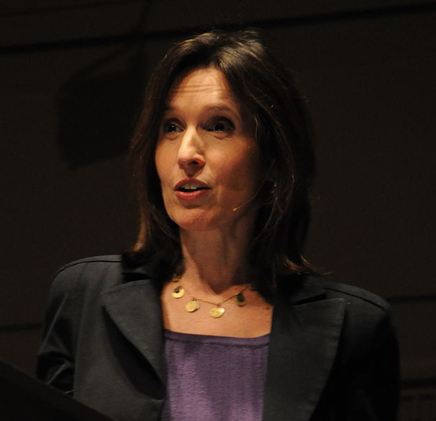 Nation editor Katrina vanden Heuvel speaking at Town Hall, Seattle, Washington, USA.